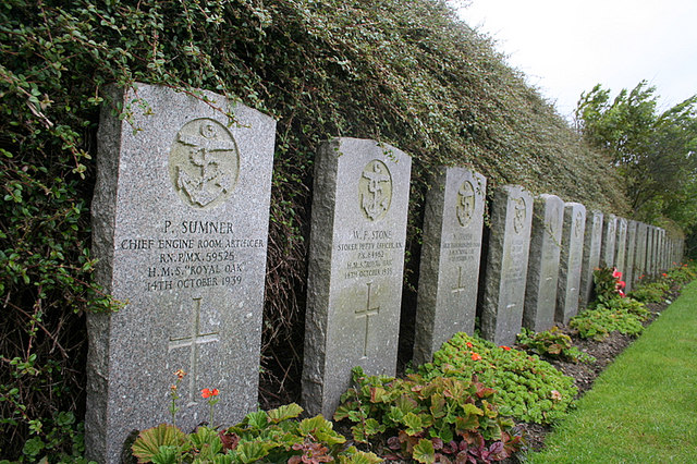 Headstones to the victims of U-Boat 47. The Royal Oak was one of the ships sunk by the daring raid of Lt Prien, commander of U47 which sneaked into Scapa Floe by an almost impossible feat of navigation and sneaked out again after a deadly raid on the British warships at anchor in Scapa Floe.